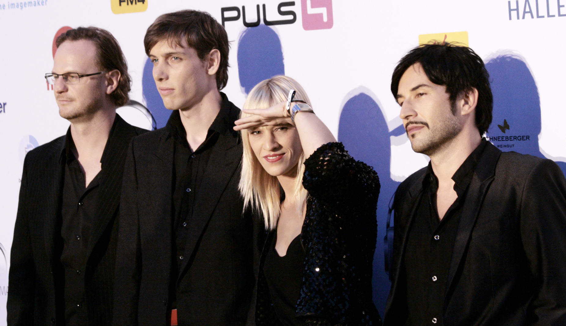 Bunny Lake at the Amadeus Austrian Music Award (Museumsquartier, Vienna)